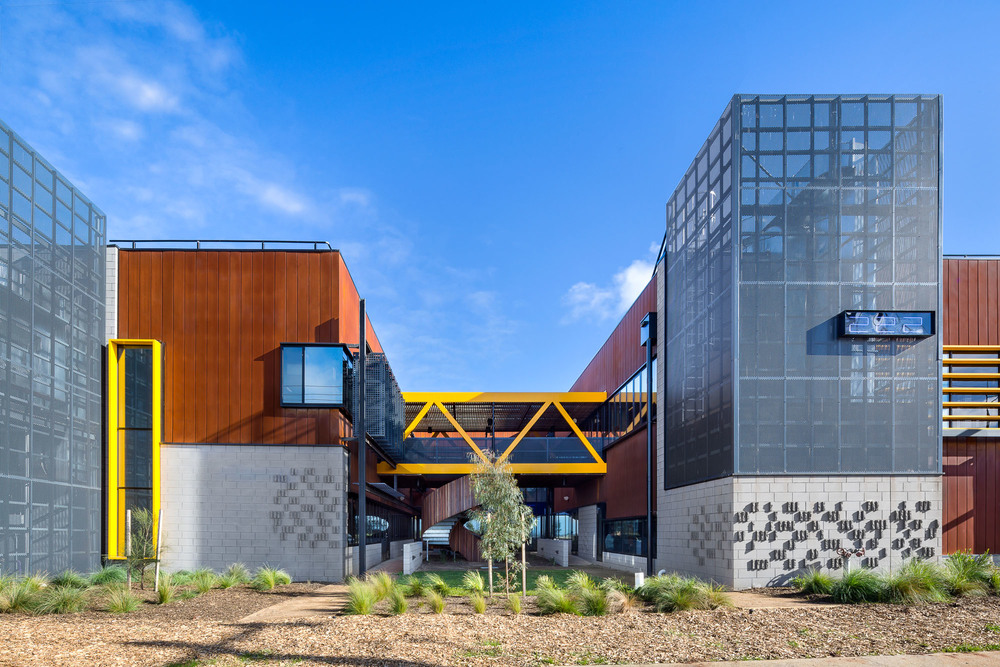 Western BACE first building in Toolern Town Centre, Cobblebank, Victoria Australia